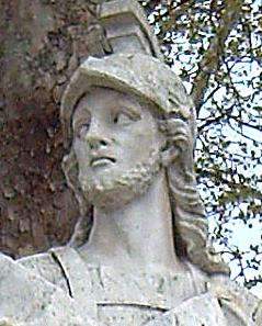 Statue of Íñigo I of Pamplona (c.781–852) at the Plaza de Oriente (square) in Madrid (Spain). Sculpted in white stone by José Oñate between 1750 and 1753.